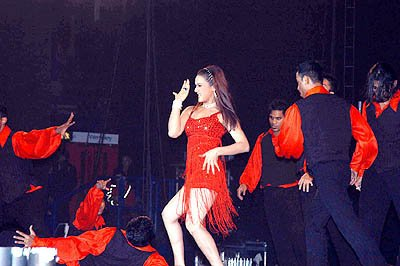 Indian actress Preity Zinta